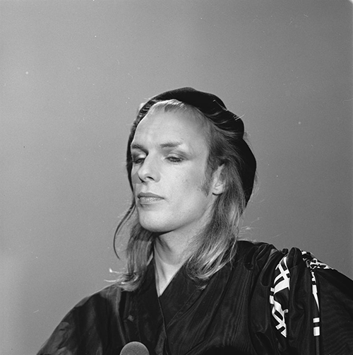 Brian Eno in AVRO's TopPop (Dutch television show) in 1974